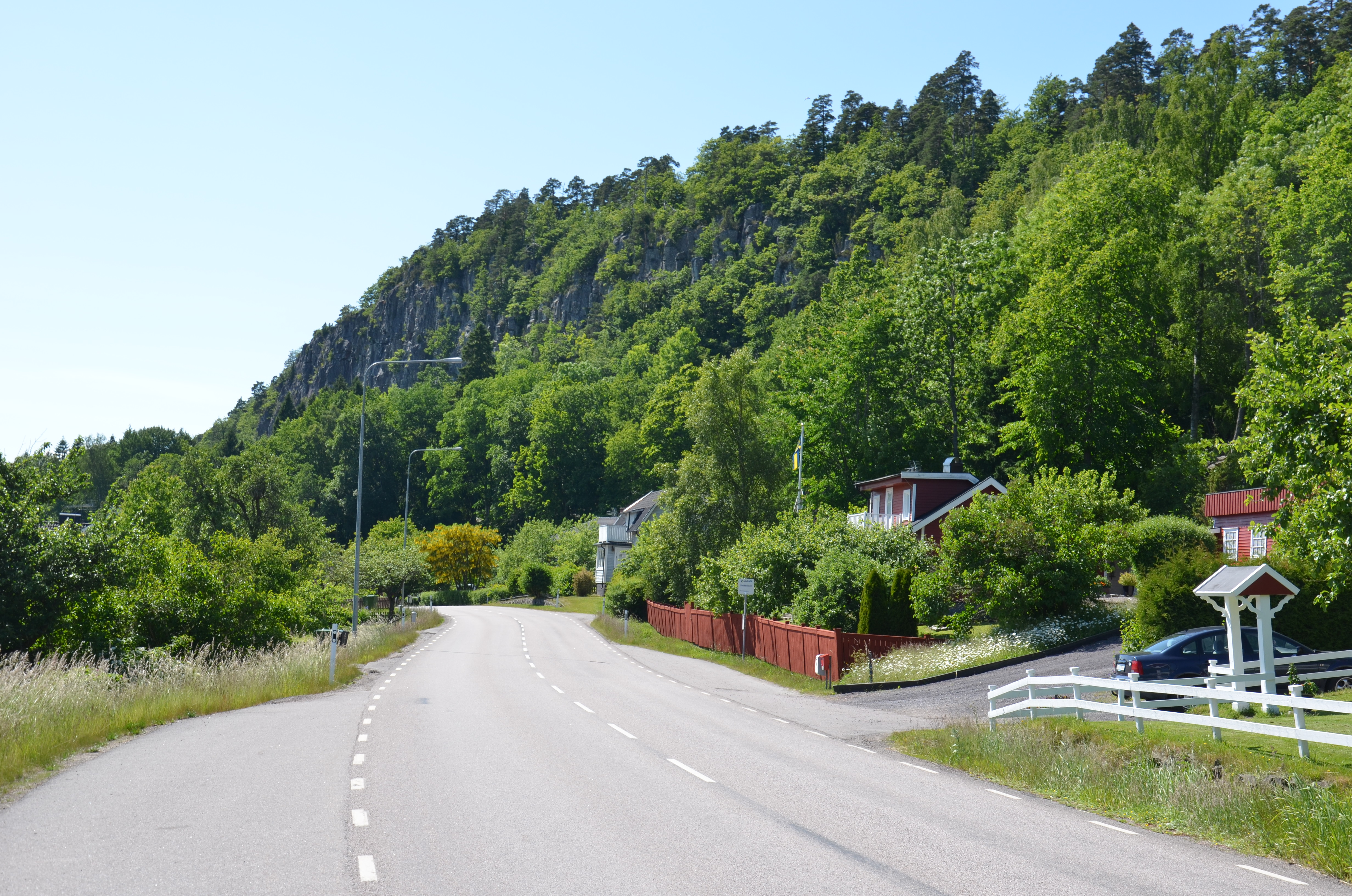 Halleberg westwards, from the main road from Grästorp to Vargön